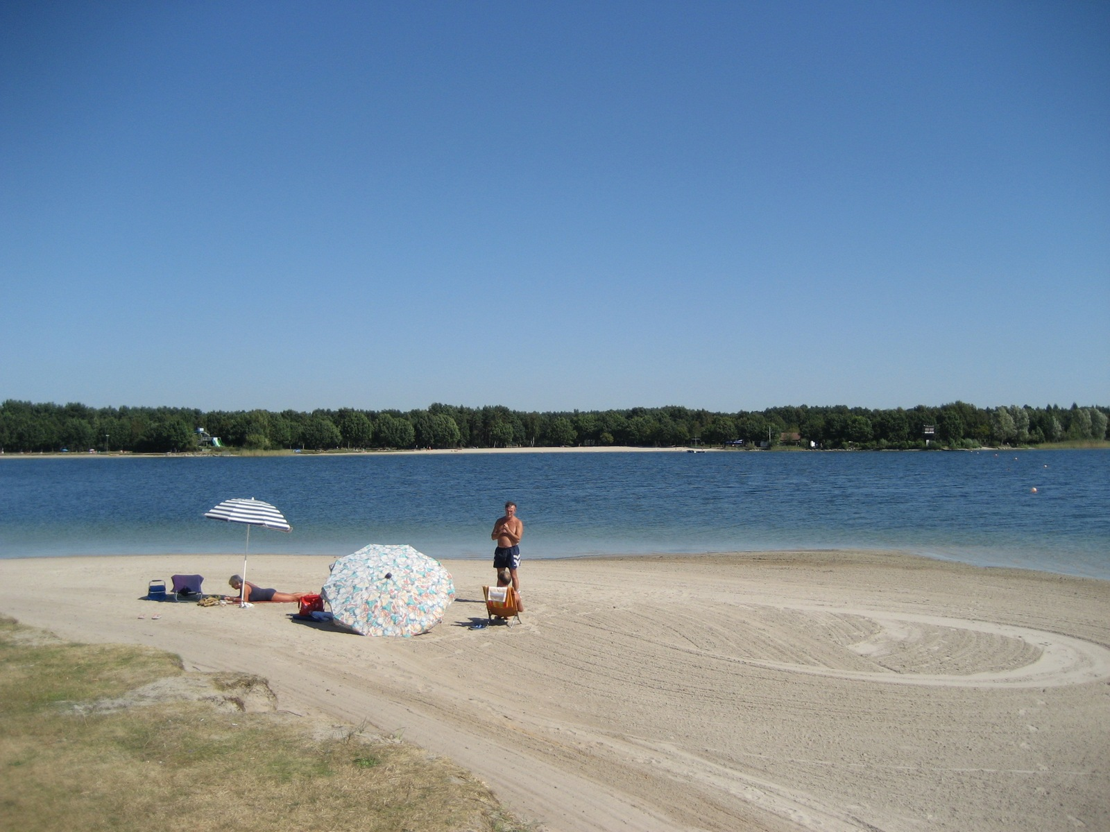 Beach at Tankumsee